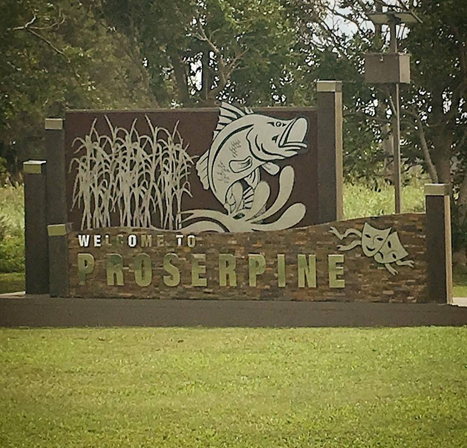 The welcome to Proserpine sign